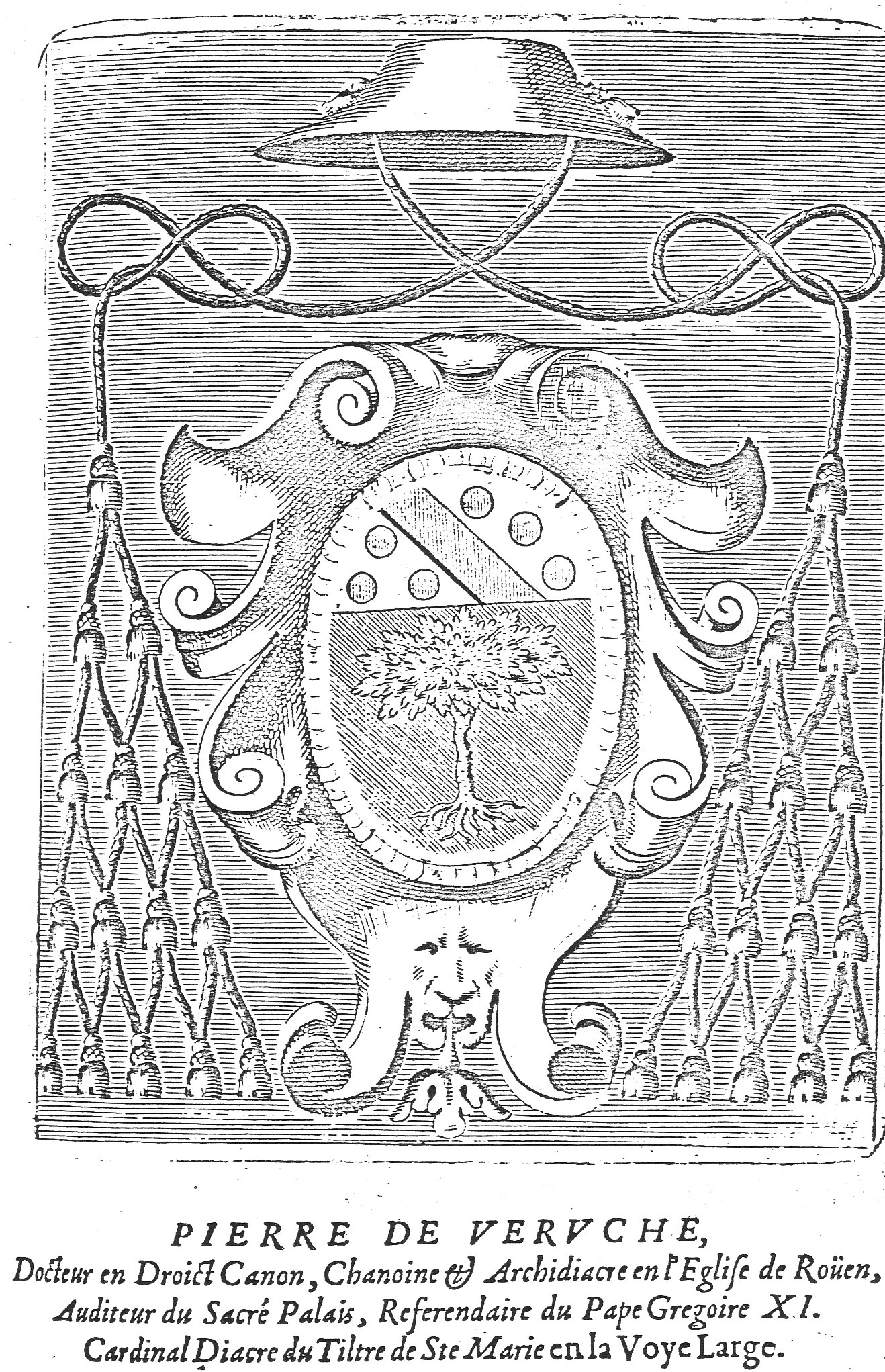 Coat of Arms of Cardinal Pierre de la Vergne (+ 1403)